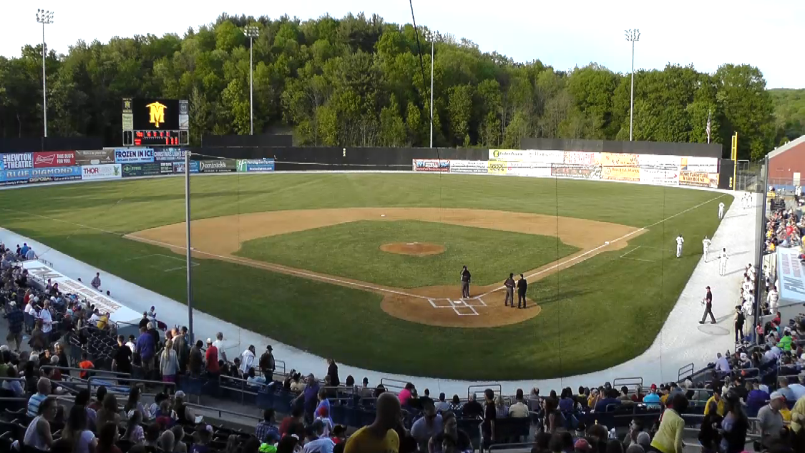 Sussex County Miners